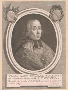 The cardinal Tommaso Antici (1731-1812)